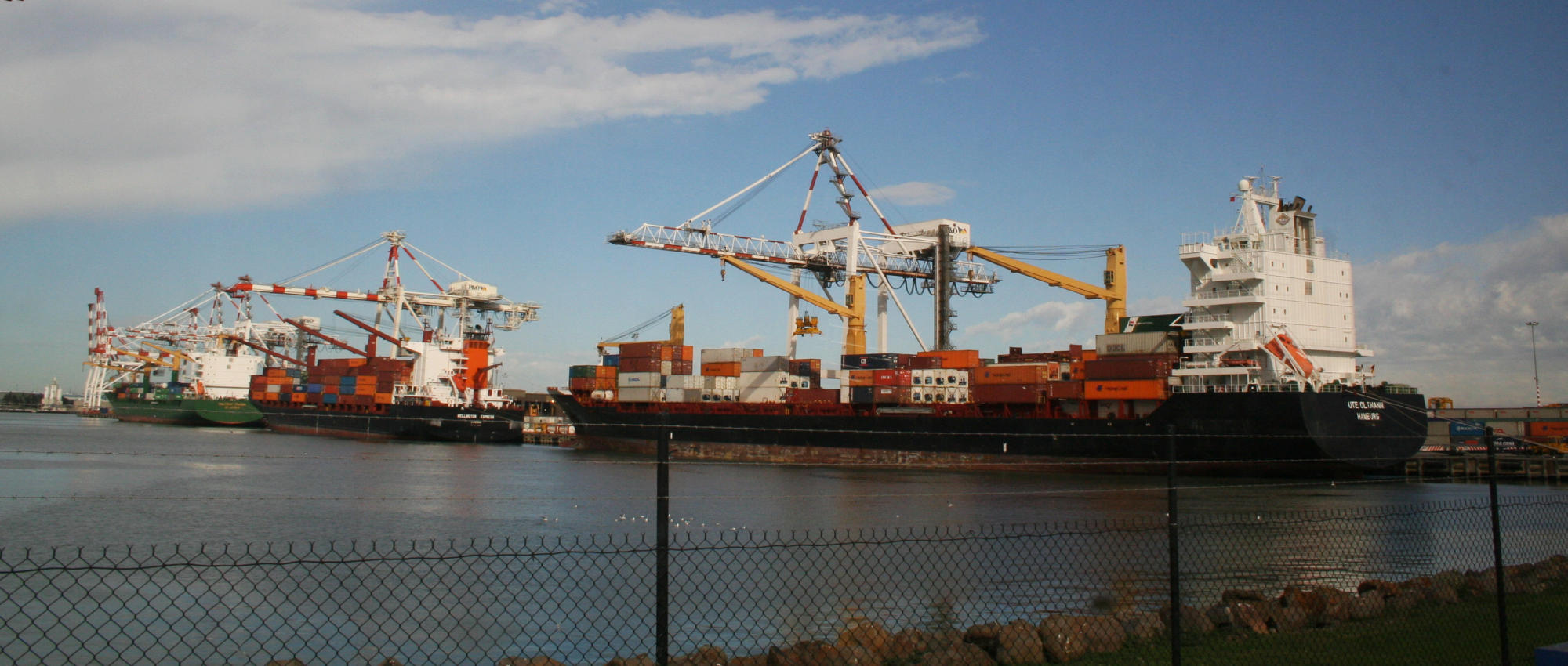 Melbourne - container ships at swanson dock, "Ute Oltmann" at right